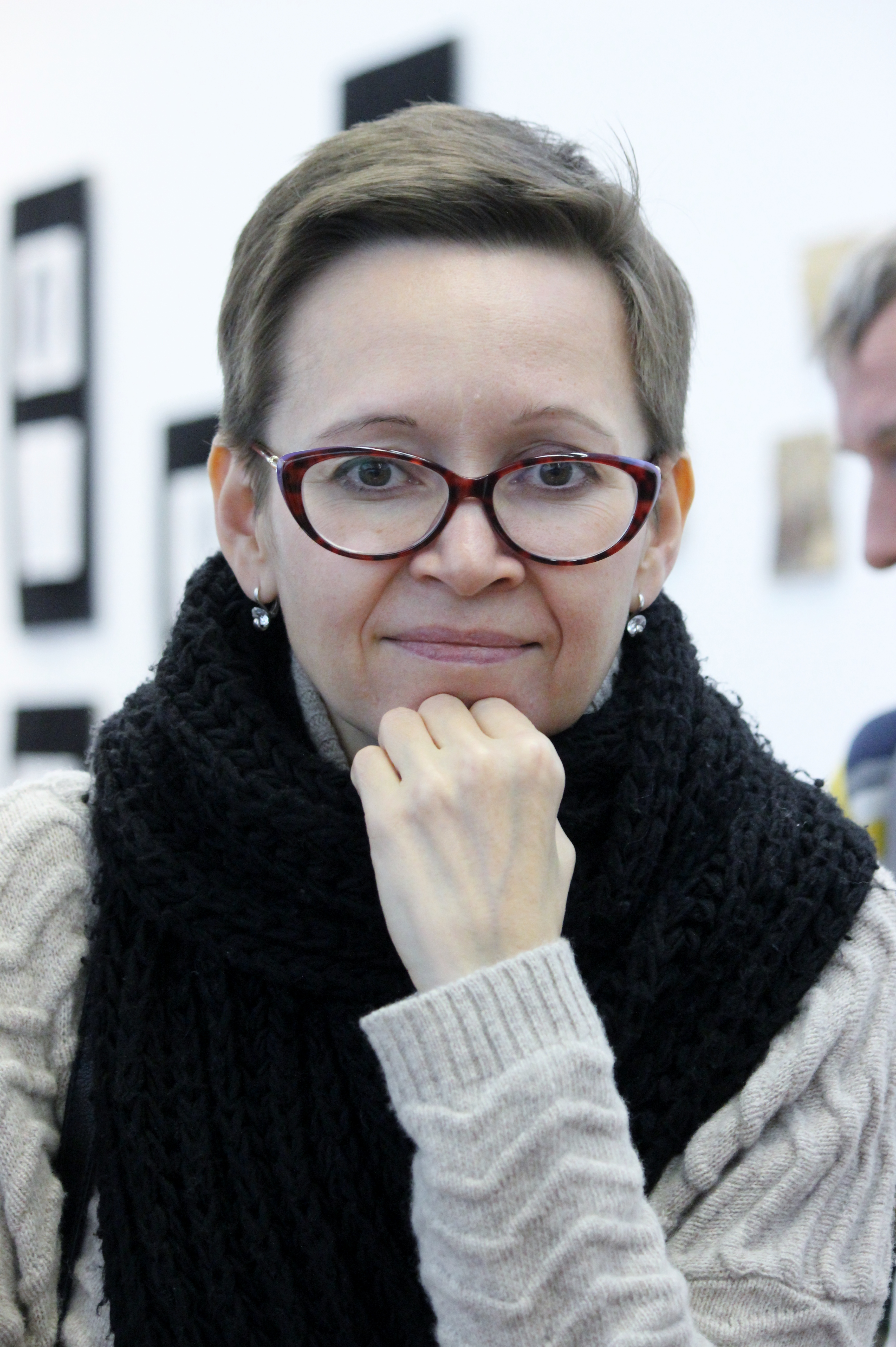 Russian writer Guzel Yakhina at the 20 Moscow International Fair Non/fiction 2018